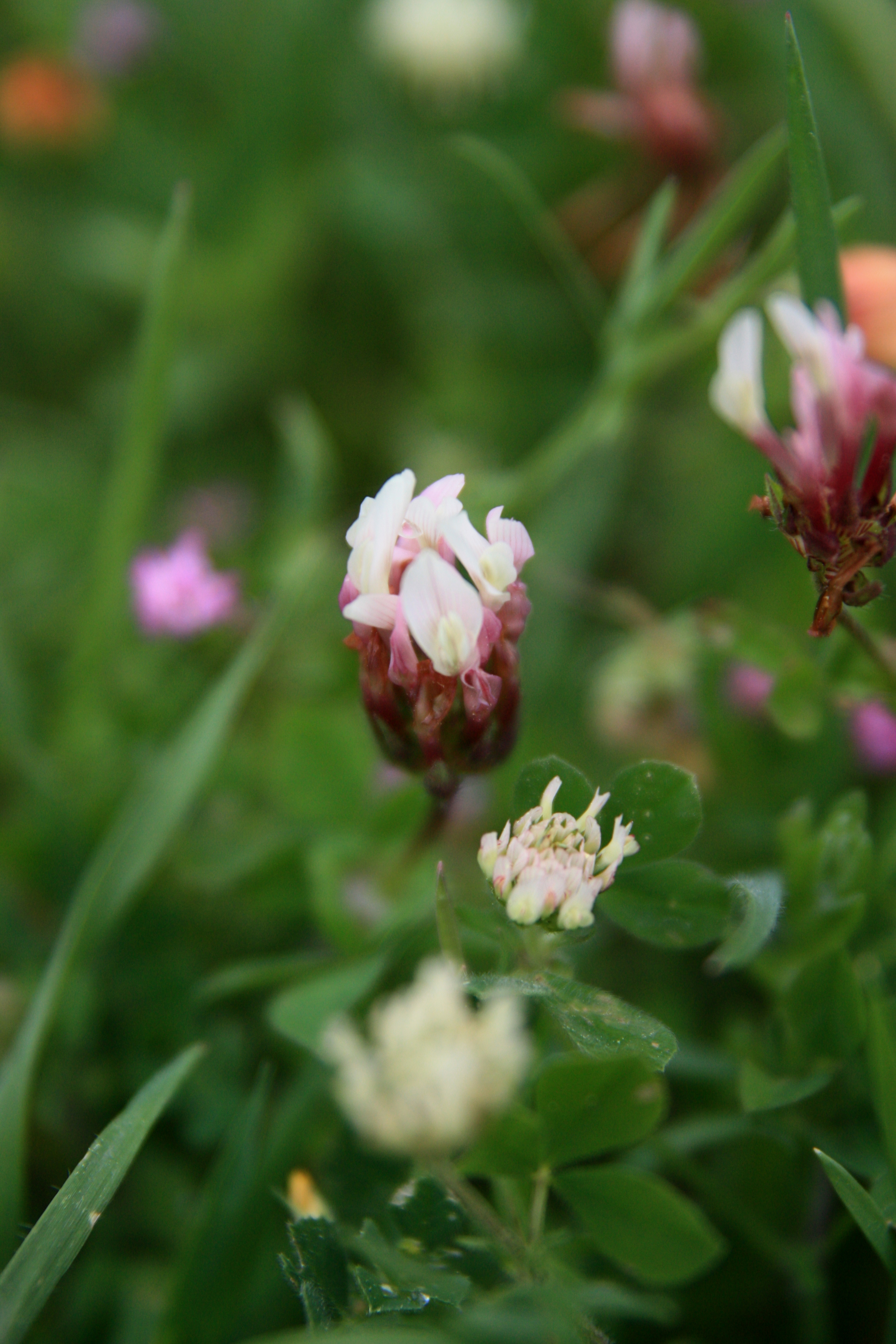 Mount Carmel